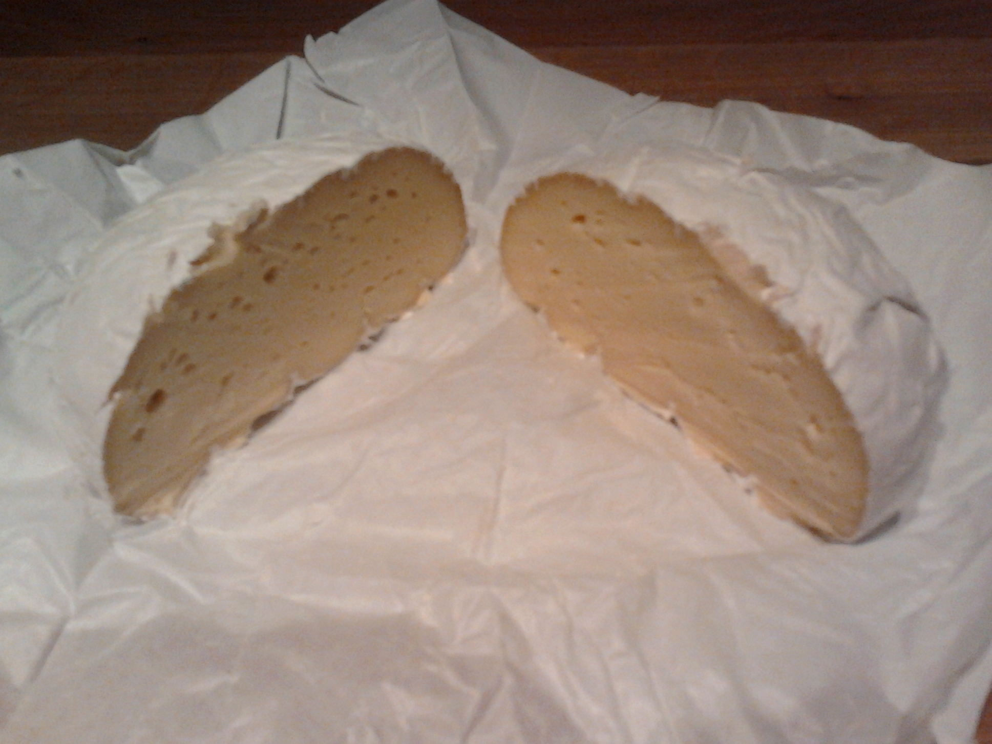 This is a sliced wheel of Damse Mokke. Damse Mokke is a white mold cheese, which is produced in the Damse Kaasmakerij (Cheese Factory of Damme) in Sijsele, Belgium, Europe.